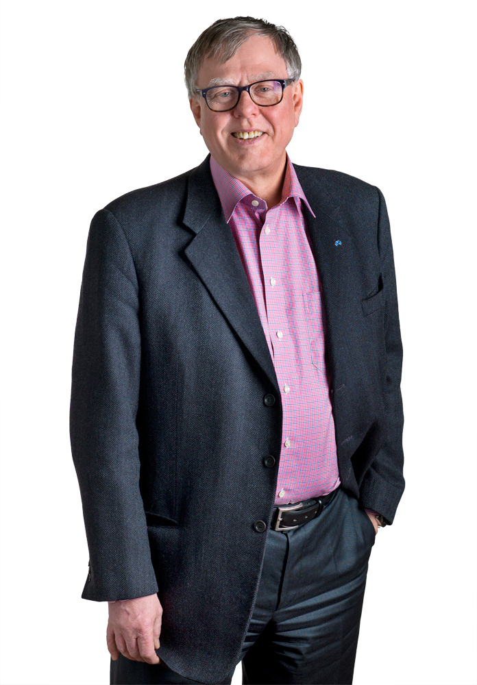 Olle Schmidt in March 19 2013, picture taken by Per Johansson